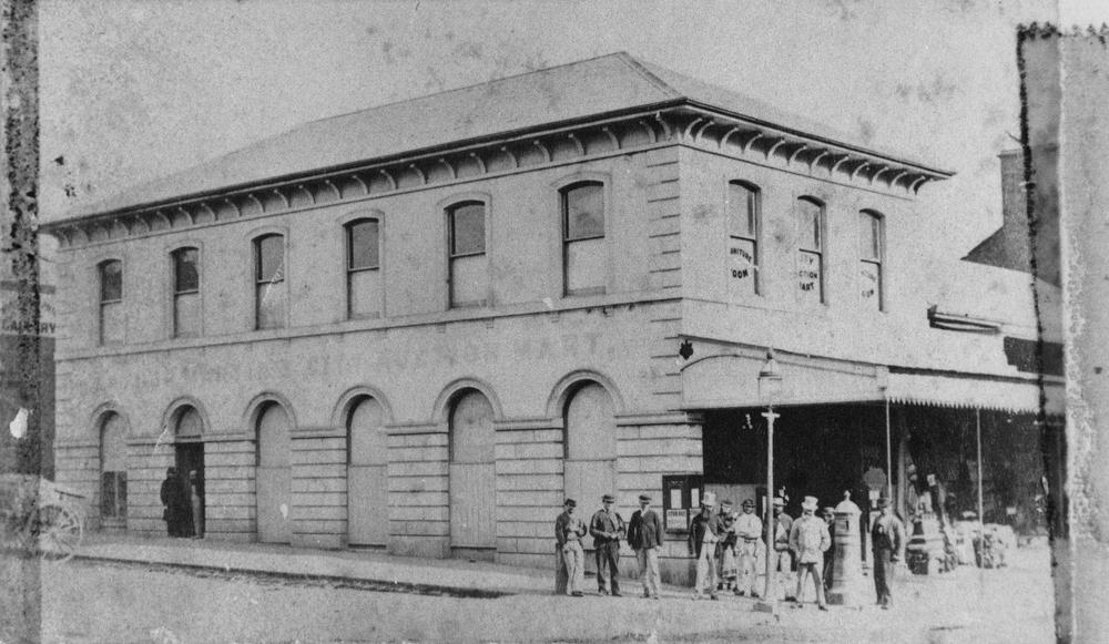 E. B. Southerden's Drapery Store on Queen Street, ca. 1873. South east corner of Edward and Queen Street originally erected in 1862. Building demolished 1924. (Description supplied with photograph.).